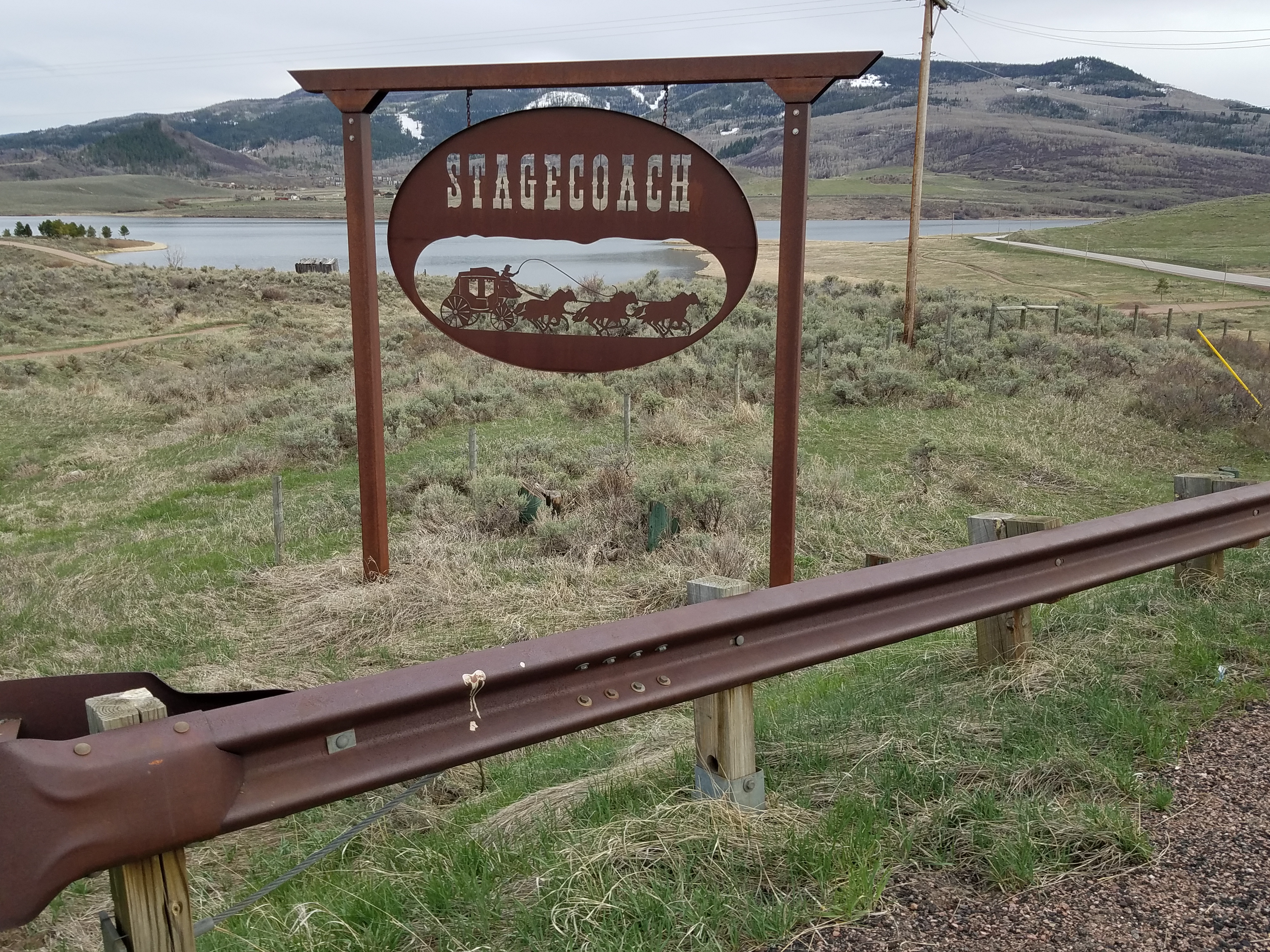 Stagecoach, CO